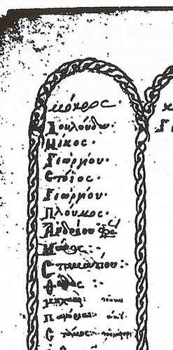 Livadero Mokro in Grand Meteora Codex 1592 - 1593